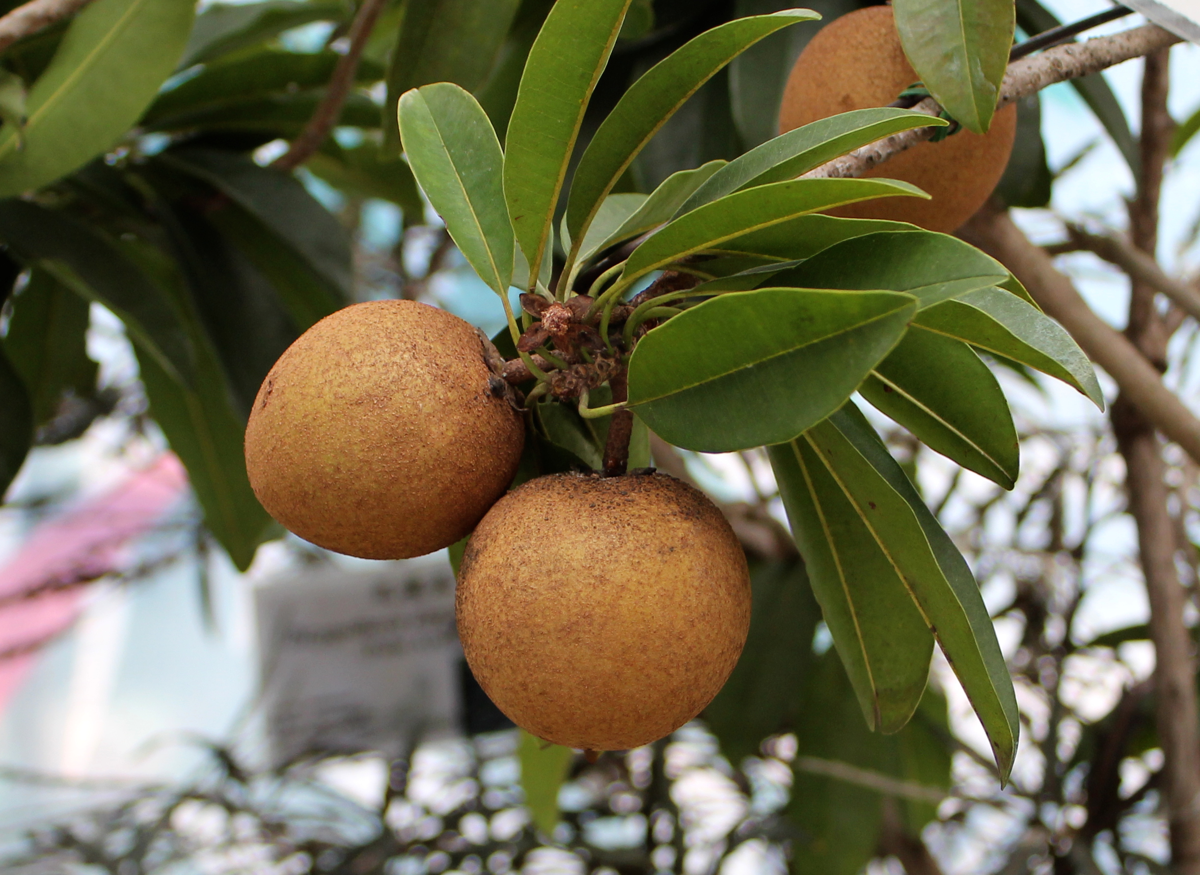 Manilkara Zapota in Hong Kong